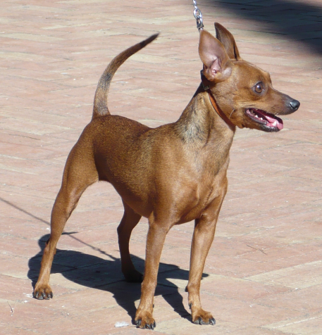 Pinscher female